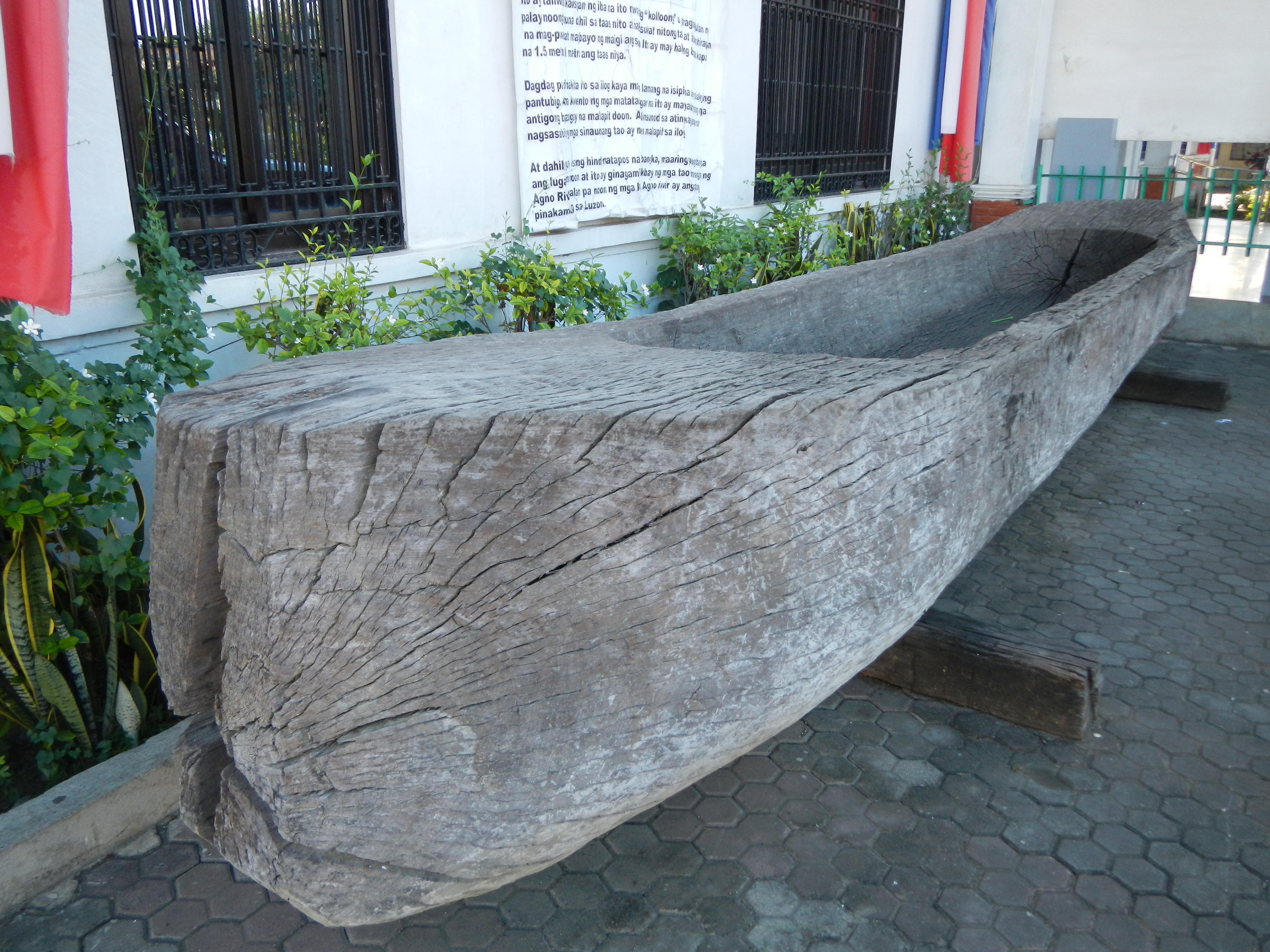 Rosales, Pangasinan[1][2]